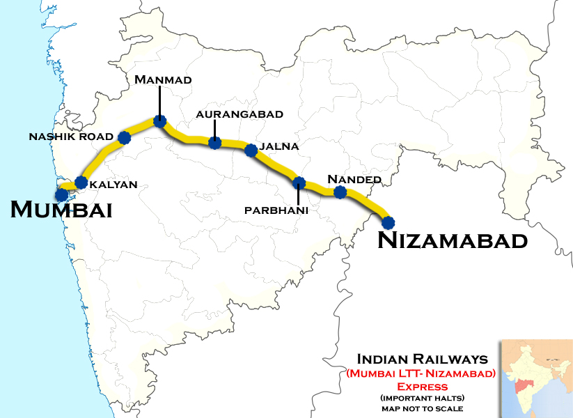 (Mumbai LTT - Nizamabad) Express Route map